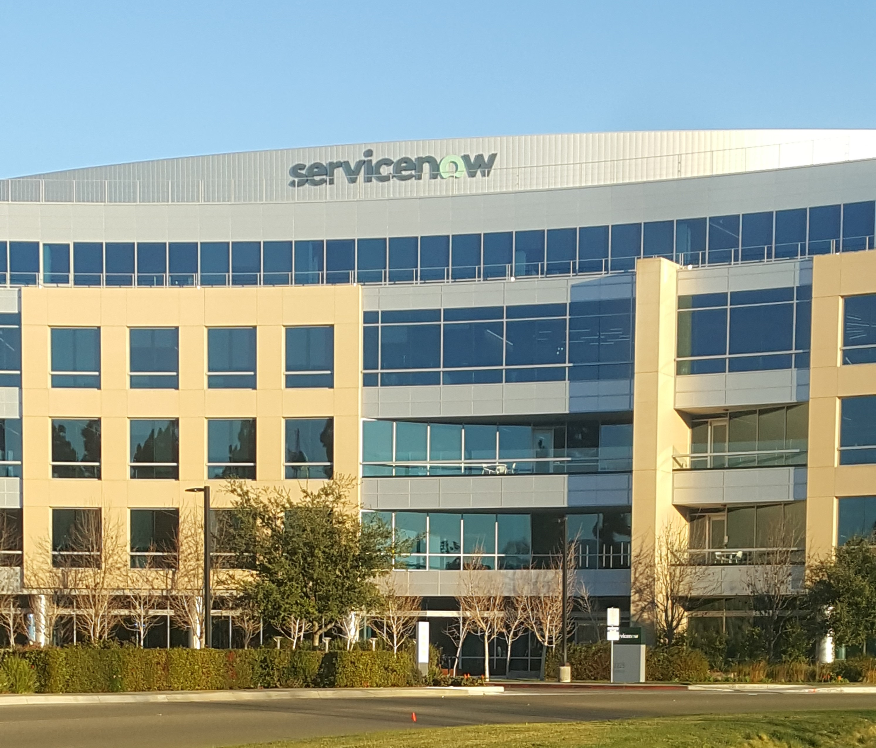 Service Now Global HQ